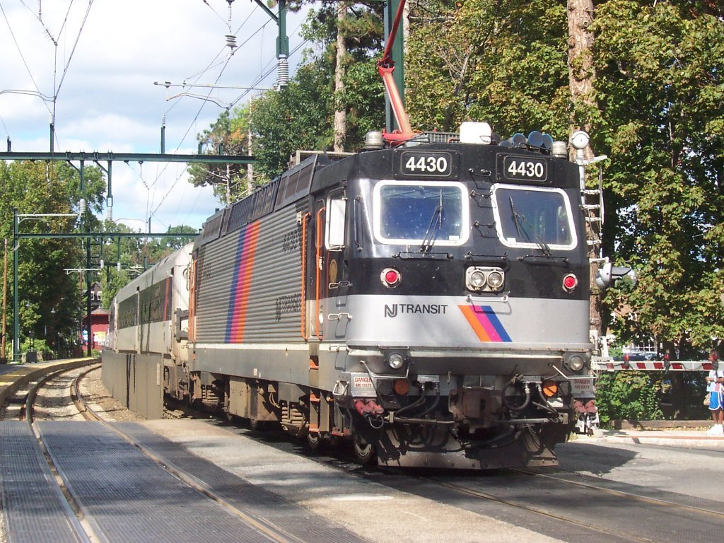 ALP-44 #4430 pushes New Jersey Transit train #6243 bound for Montclair State University into the Upper Montclair station.